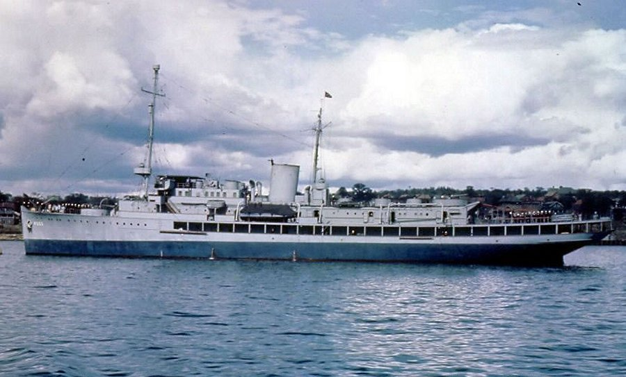 USS Vixen (PG 53) from "National Archives photo".